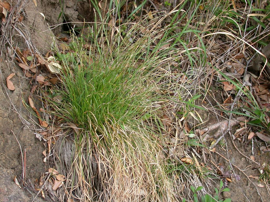 Carex lanceolata (Cyperaceae) Japanese name;Hikagesuge date:2007.05.18:Tanabe city,Wakayama pref.Japan Author;Keisotyo